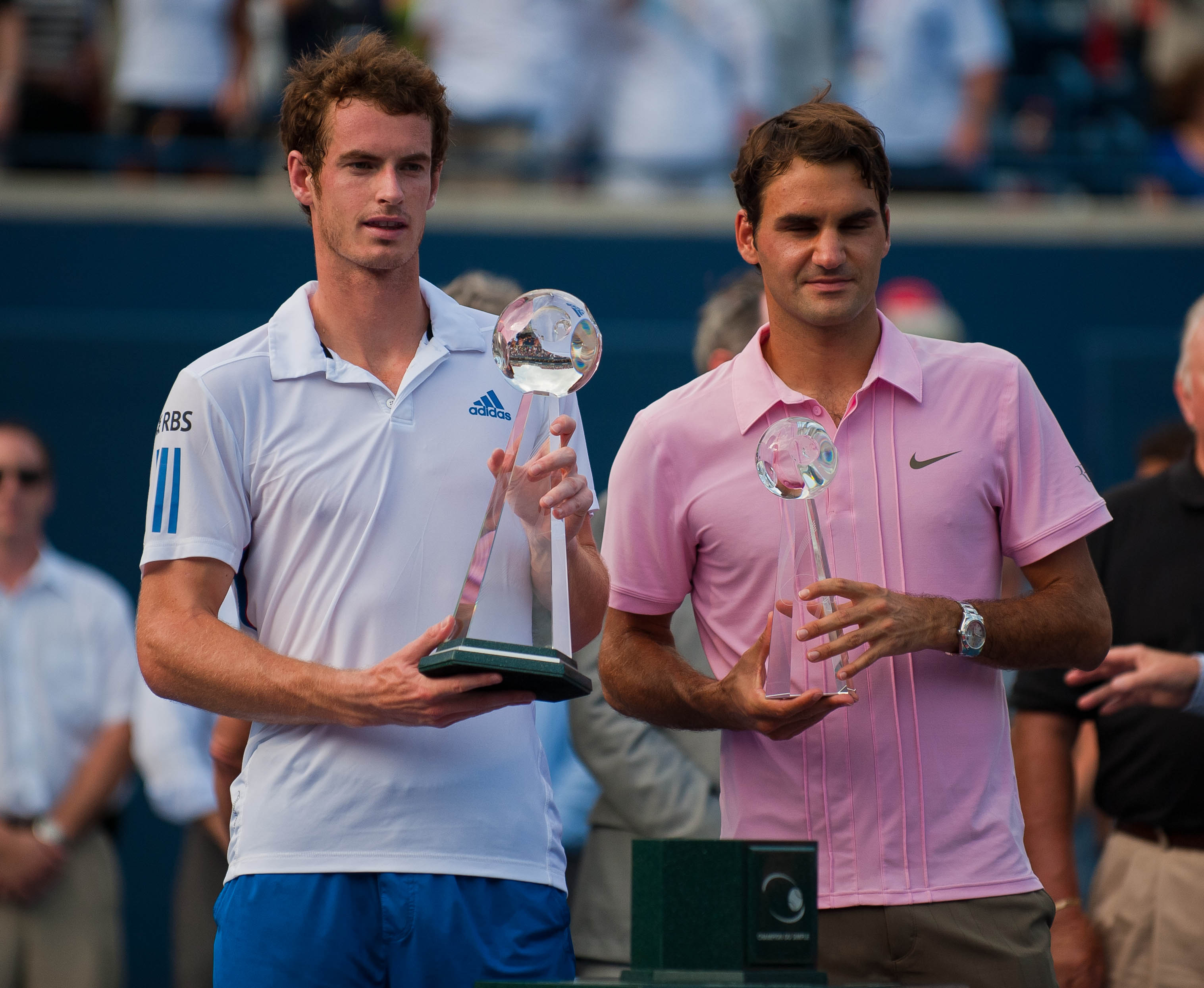 Champion, Andy Murray (left) with runner up, Roger Federer (right), in Toronto.